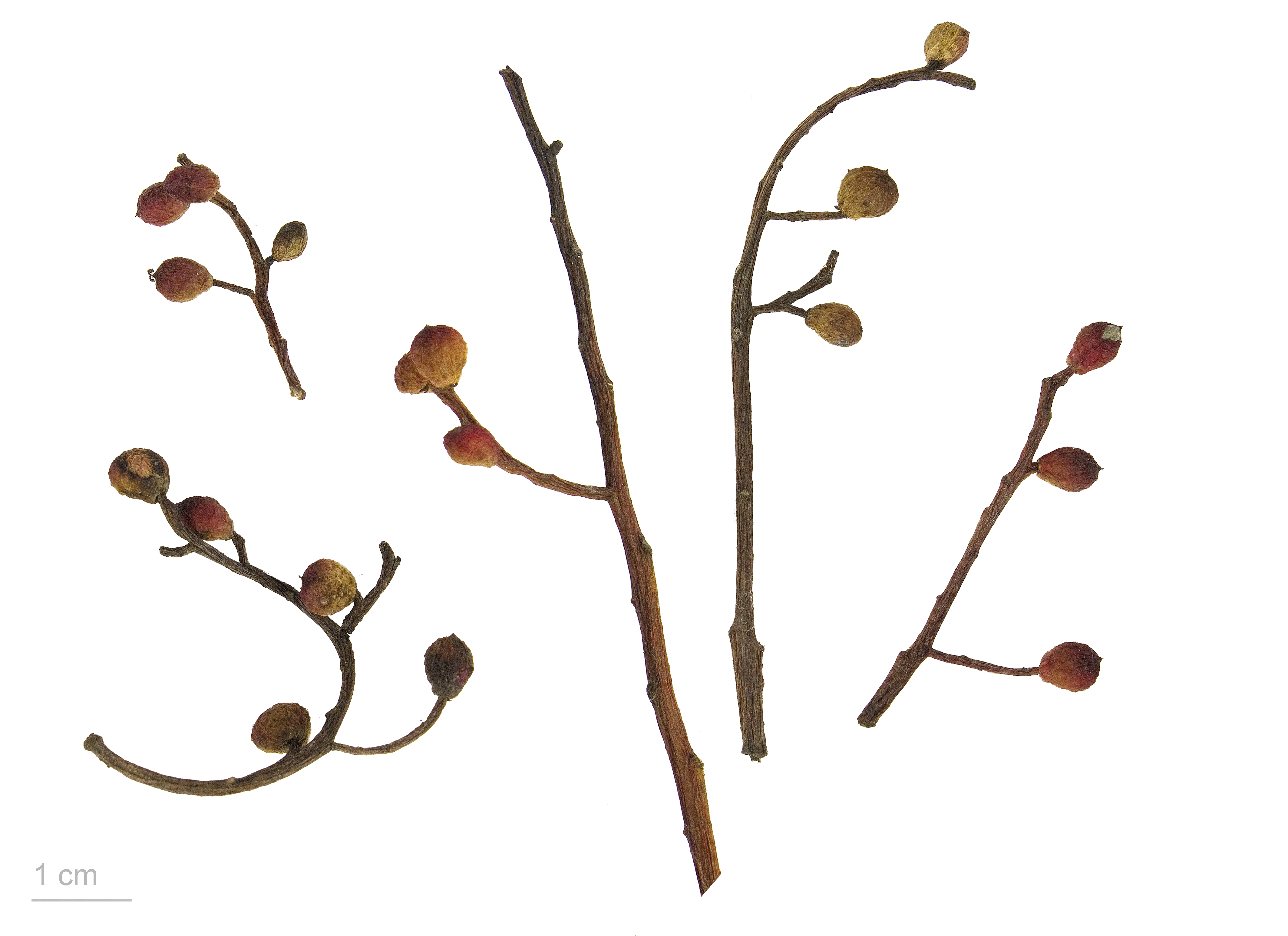 Pistachier , fruits and seeds